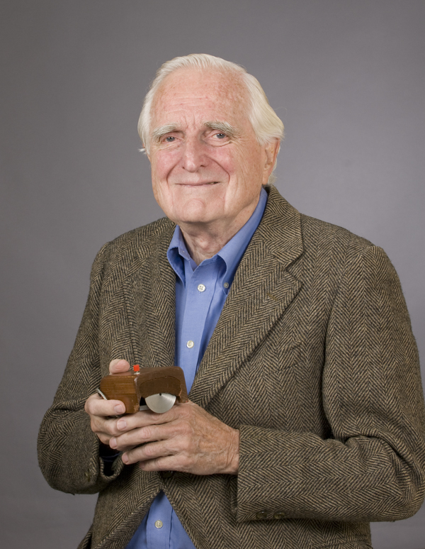 SRI’s Douglas Engelbart with the first computer mouse prototype